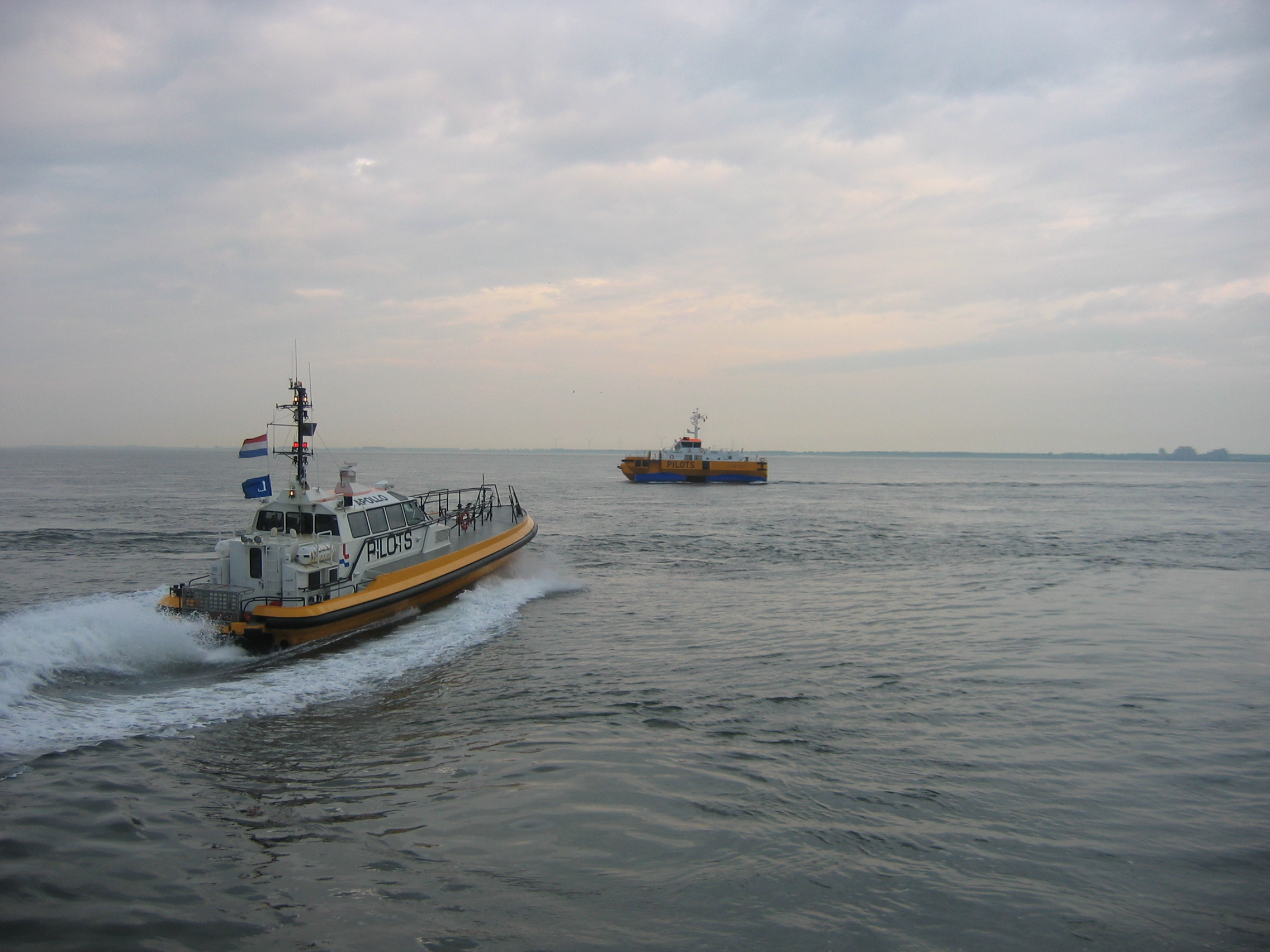 Pilot near vlissingen